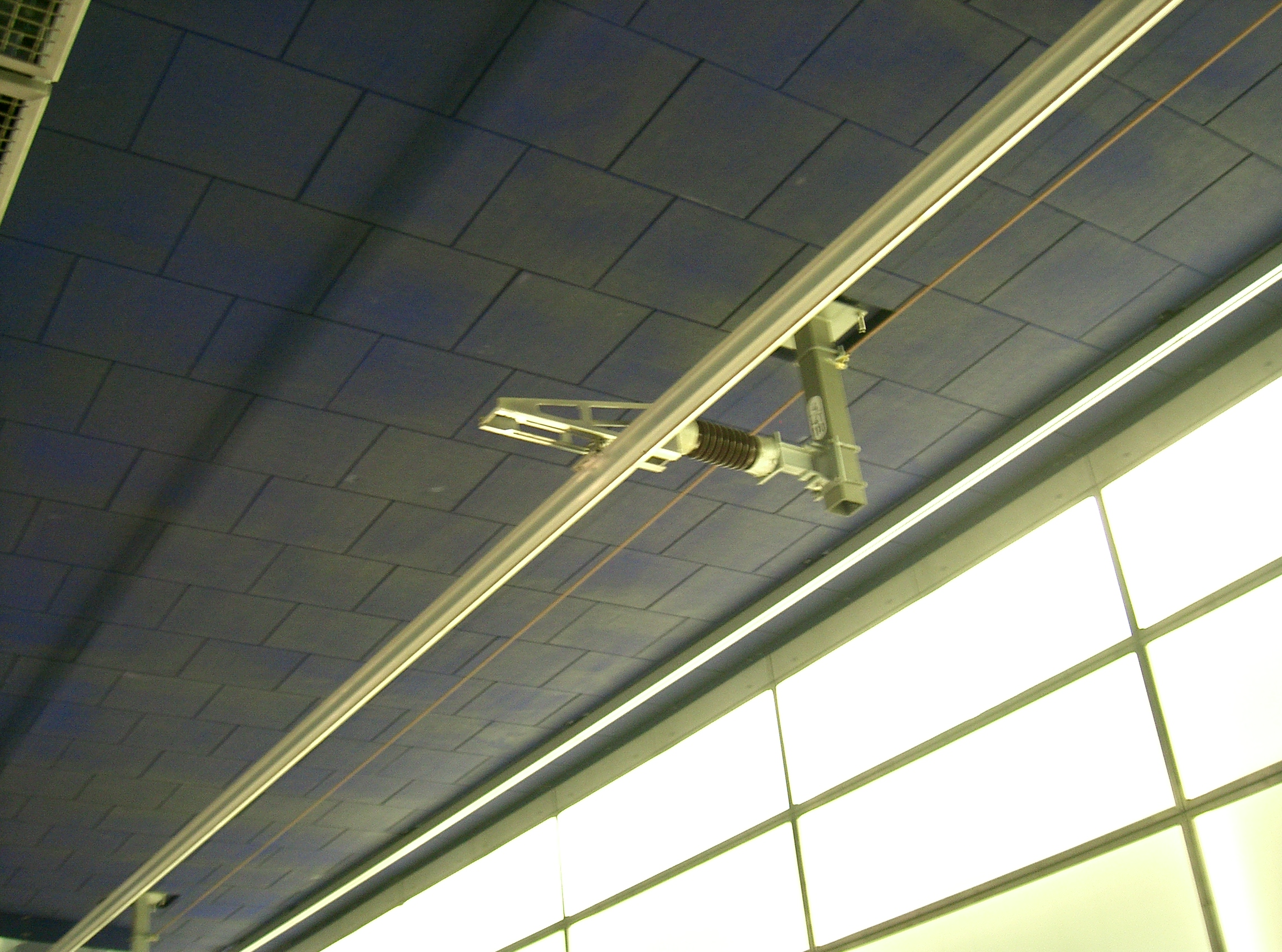 Overhead conductor rail in the Tiergarten railway tunnel in Berlin in Berlin Potsdamer Platz.